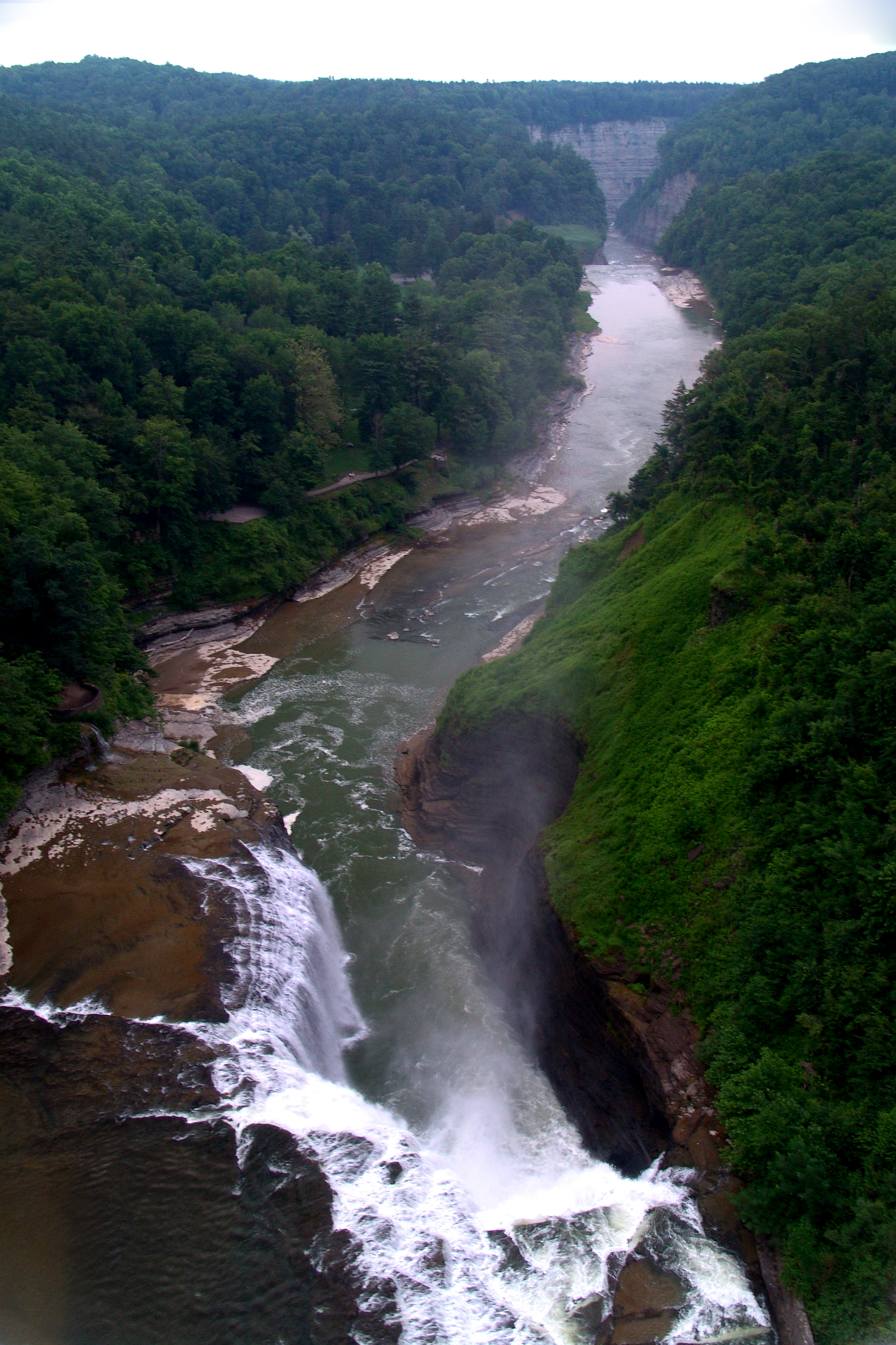 View of the High Falls in Letchworth State Park, Rochester NY, from the Portage Viaduct